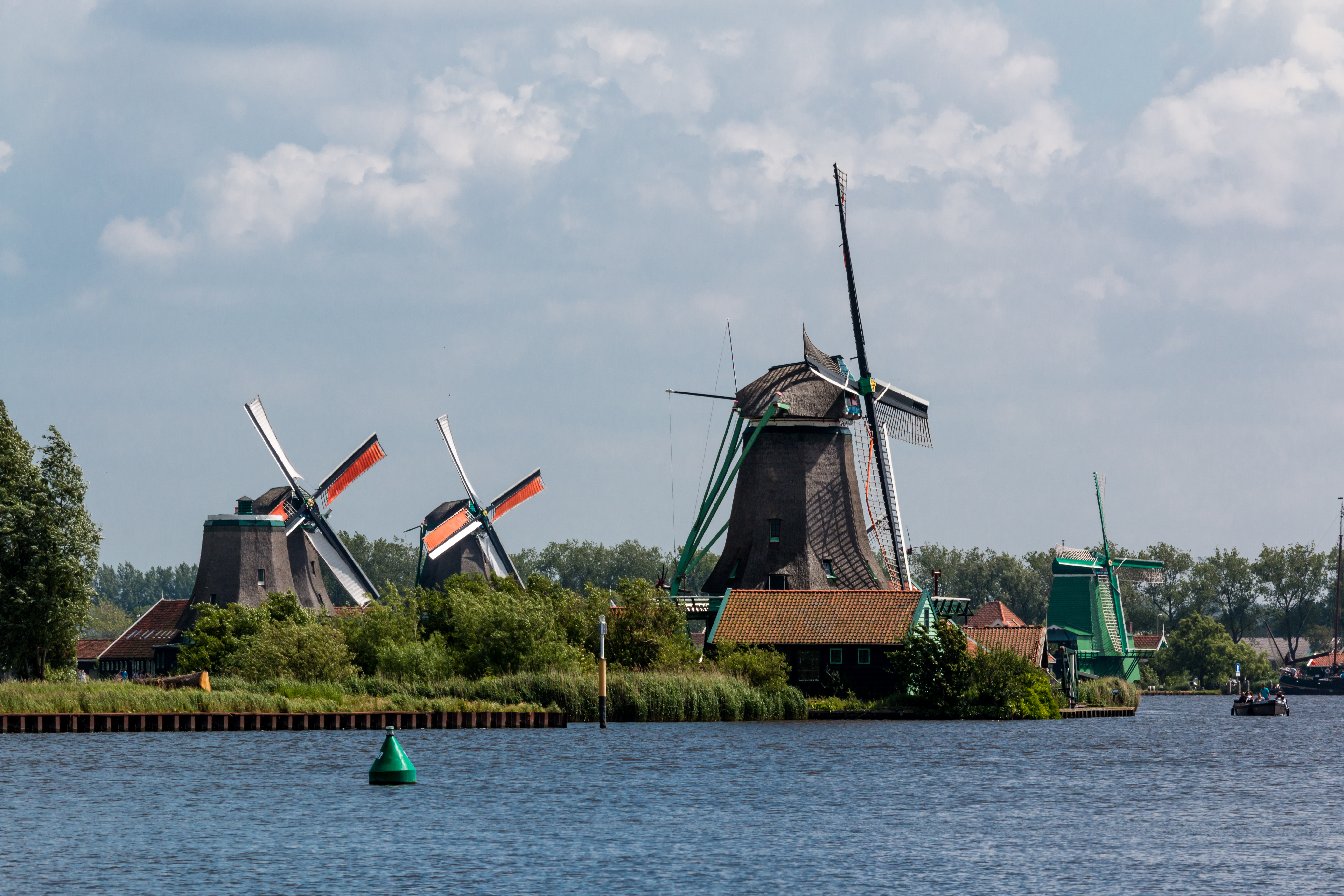 Windmills in Zaanse Schans near Amsterdam, Netherlands